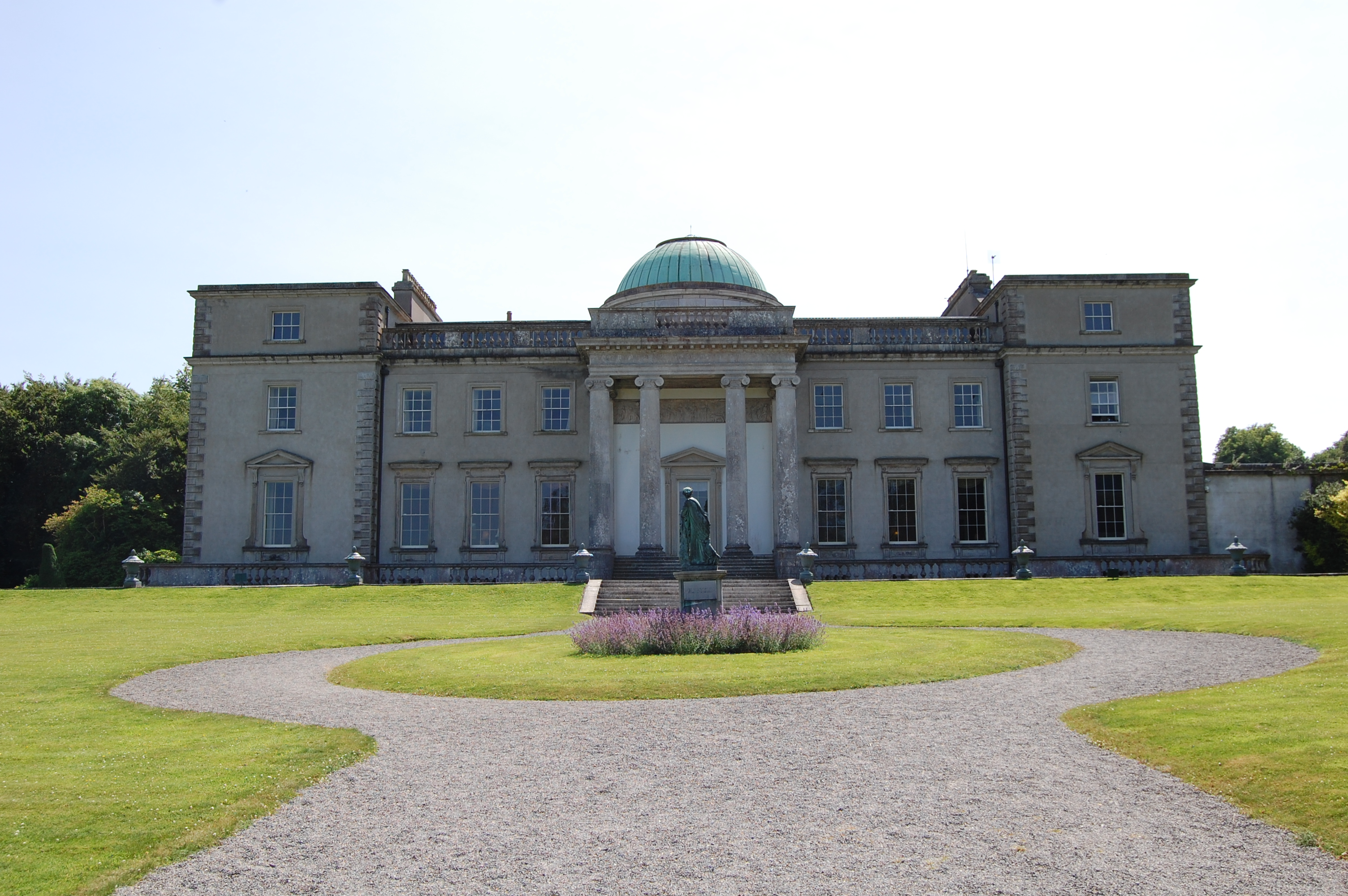 Emo Court at mid-afternoon on a fine sunny day in July 2013.